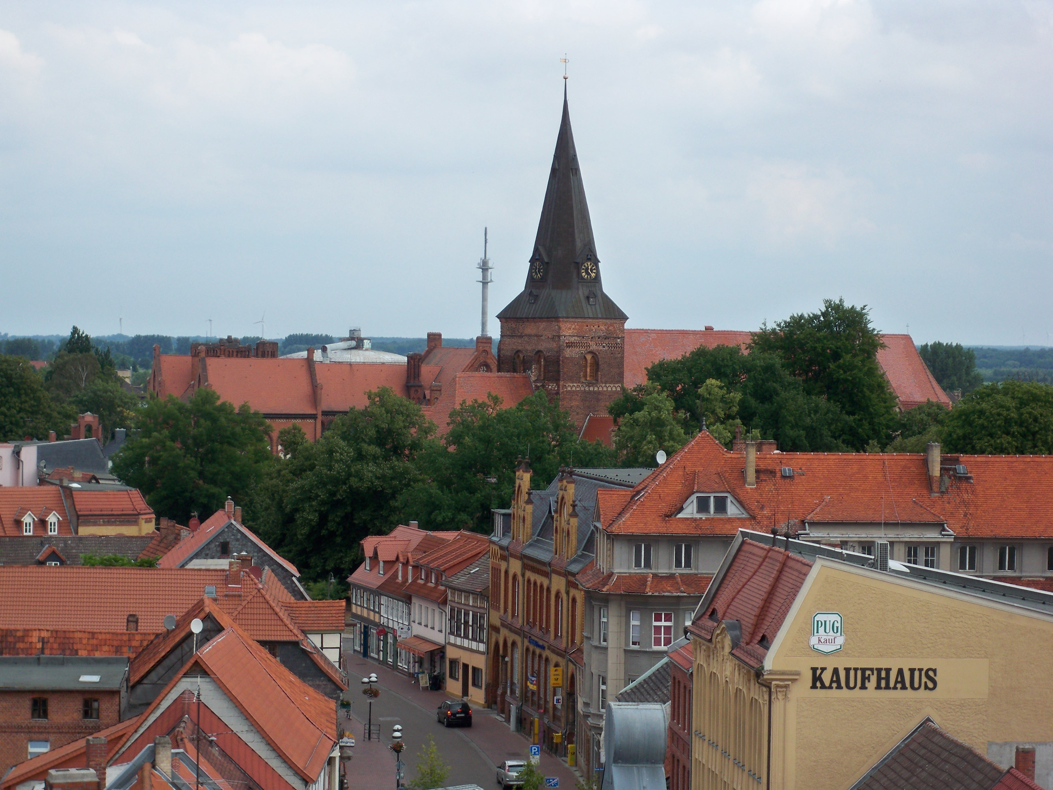 Katharinenkirche Salzwedel seen from tower of Neustädter Rathaus